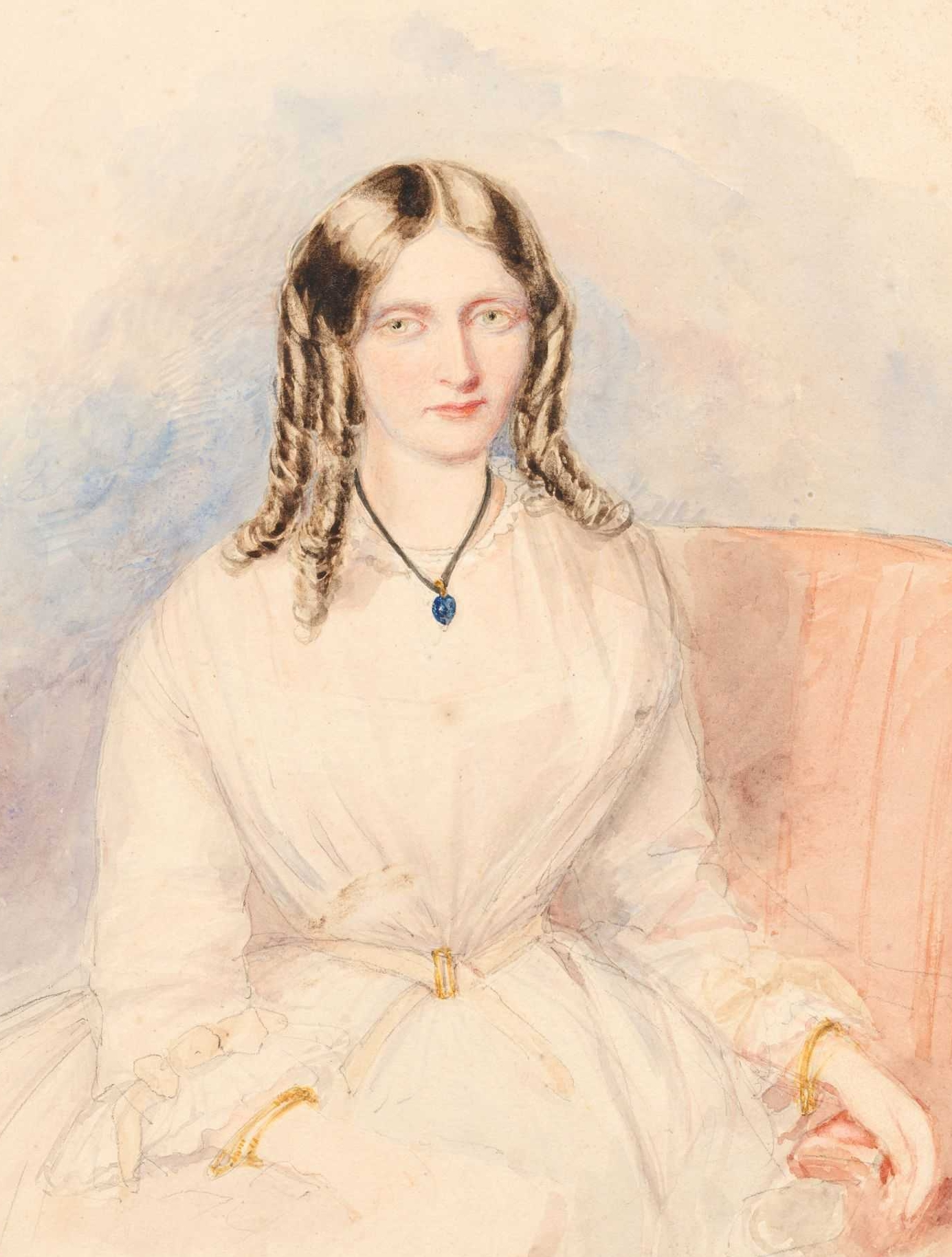 Portrait of Elizabeth Read (nee Archer), watercolour on paper (sheet: 37.5 cm x 31.0 cm)